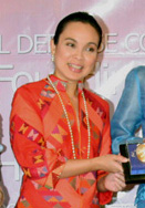 45th National Defense College of the Philippines (NDCP) Founding Anniversary. Alumni Homecoming and Convention, Kalayaan Hall, Club Filipino, San Juan City. Philippine Senator Loren Legarda